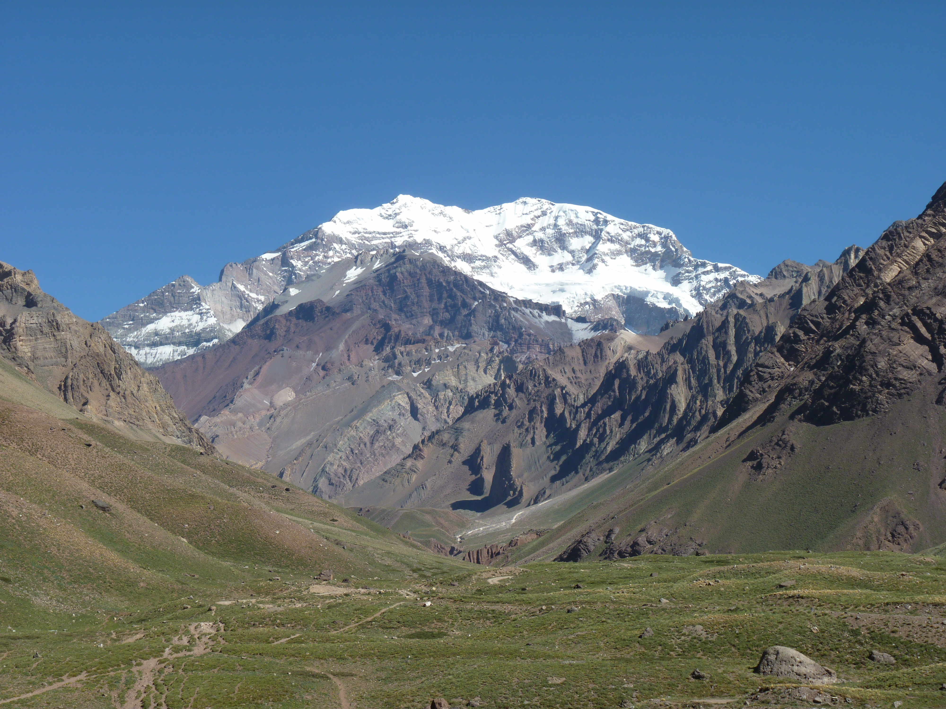 Mount Aconcagua, Argentina.